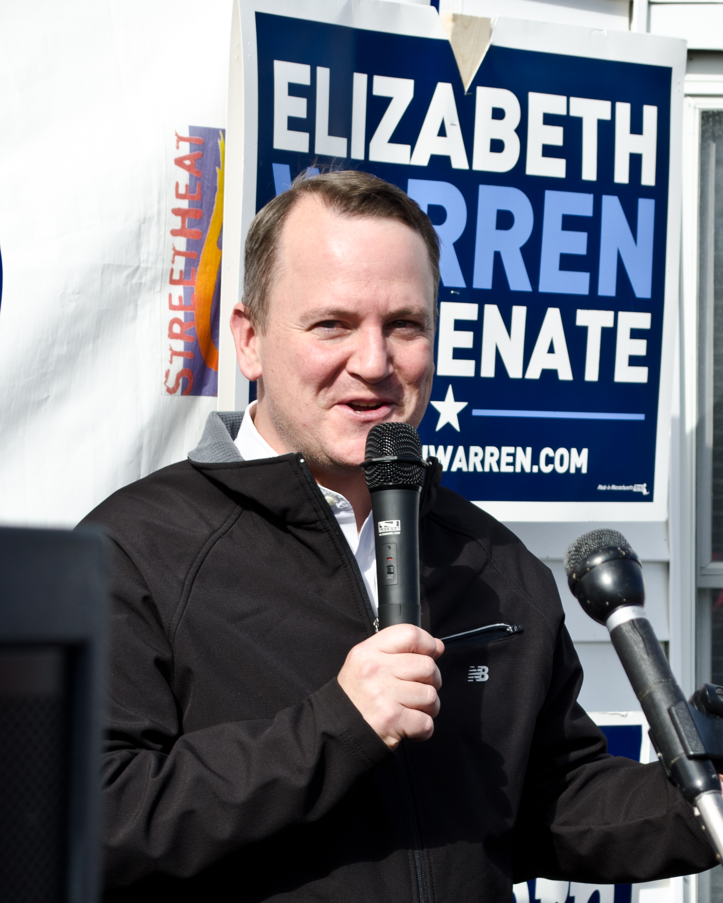 Massachusetts Lieutenant Governor Tim Murray campaigning on behalf of Elizabeth Warren in Auburn, Massachusetts, Nov 2, 2012.